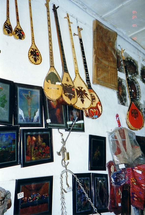 The Çiftelia is an Albanian wooden, largely acoustic string instrument, with only two strings (in Albanian, çifteli means double-stringed). It is also known by its original Asian, Turkish and Arabic names of dyzen and karadyzen.